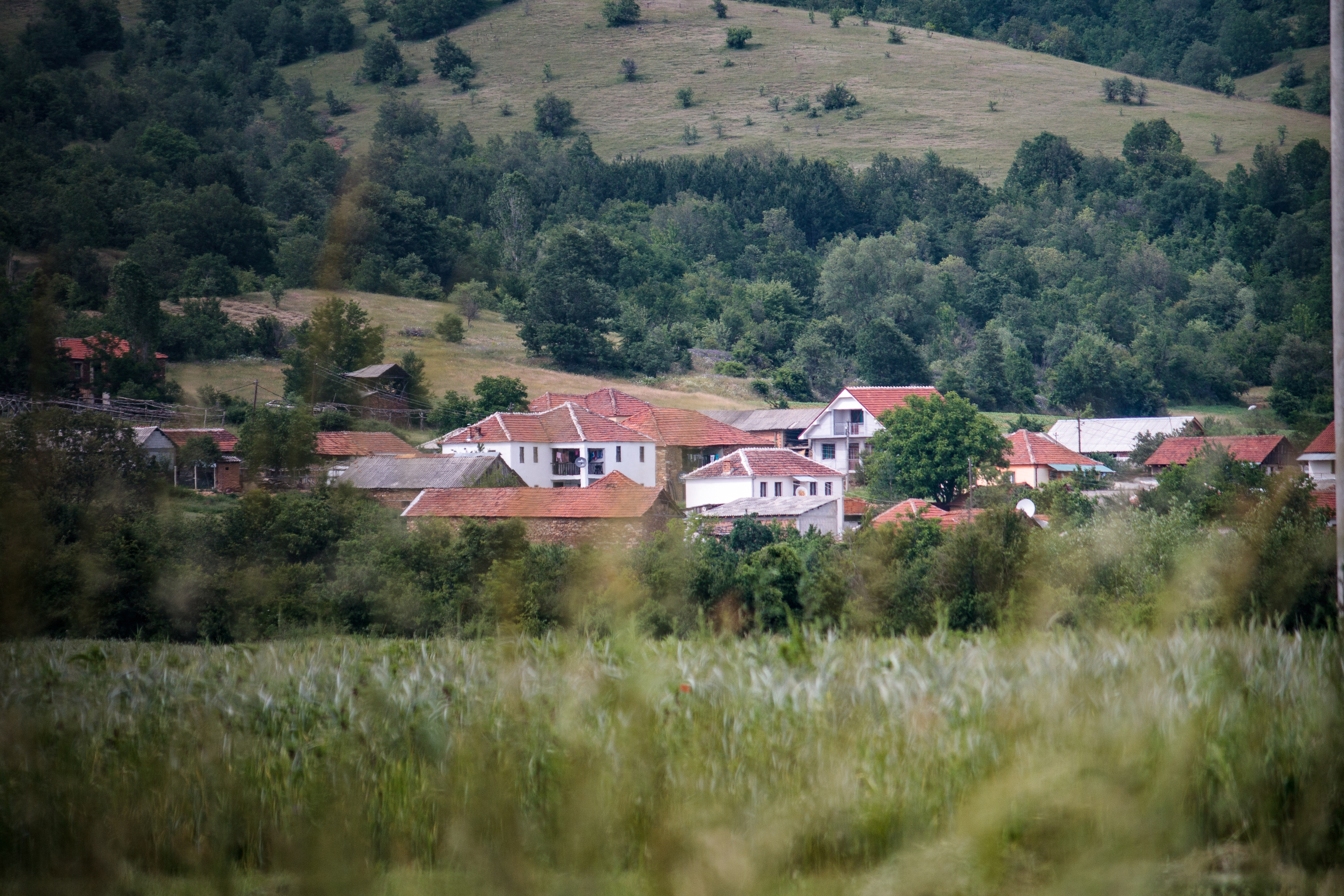 View of the village Sveta